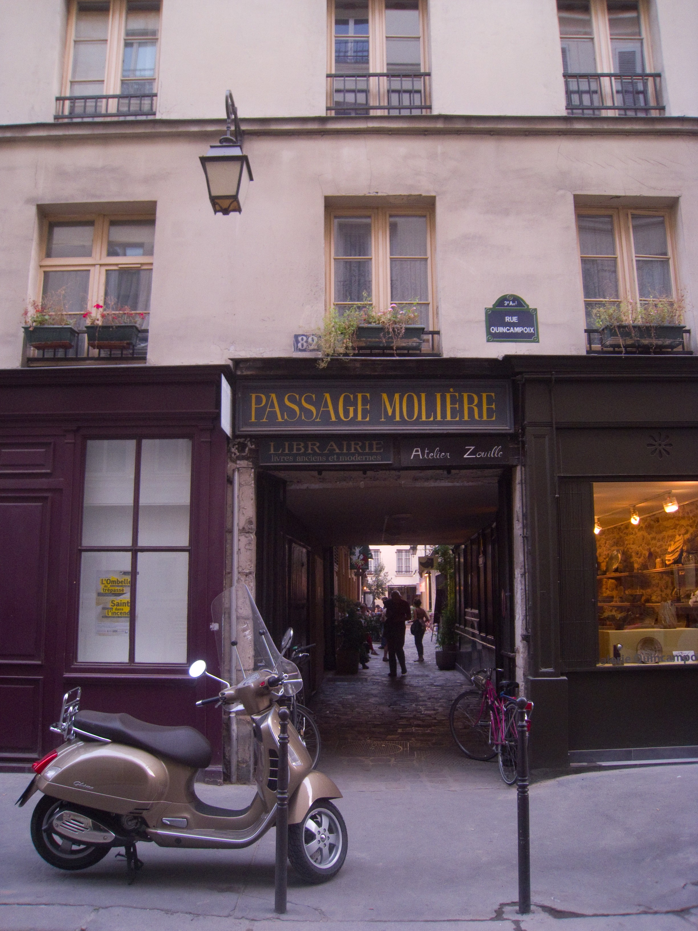 Passage Molière, Paris IIIe arrondissement, France.